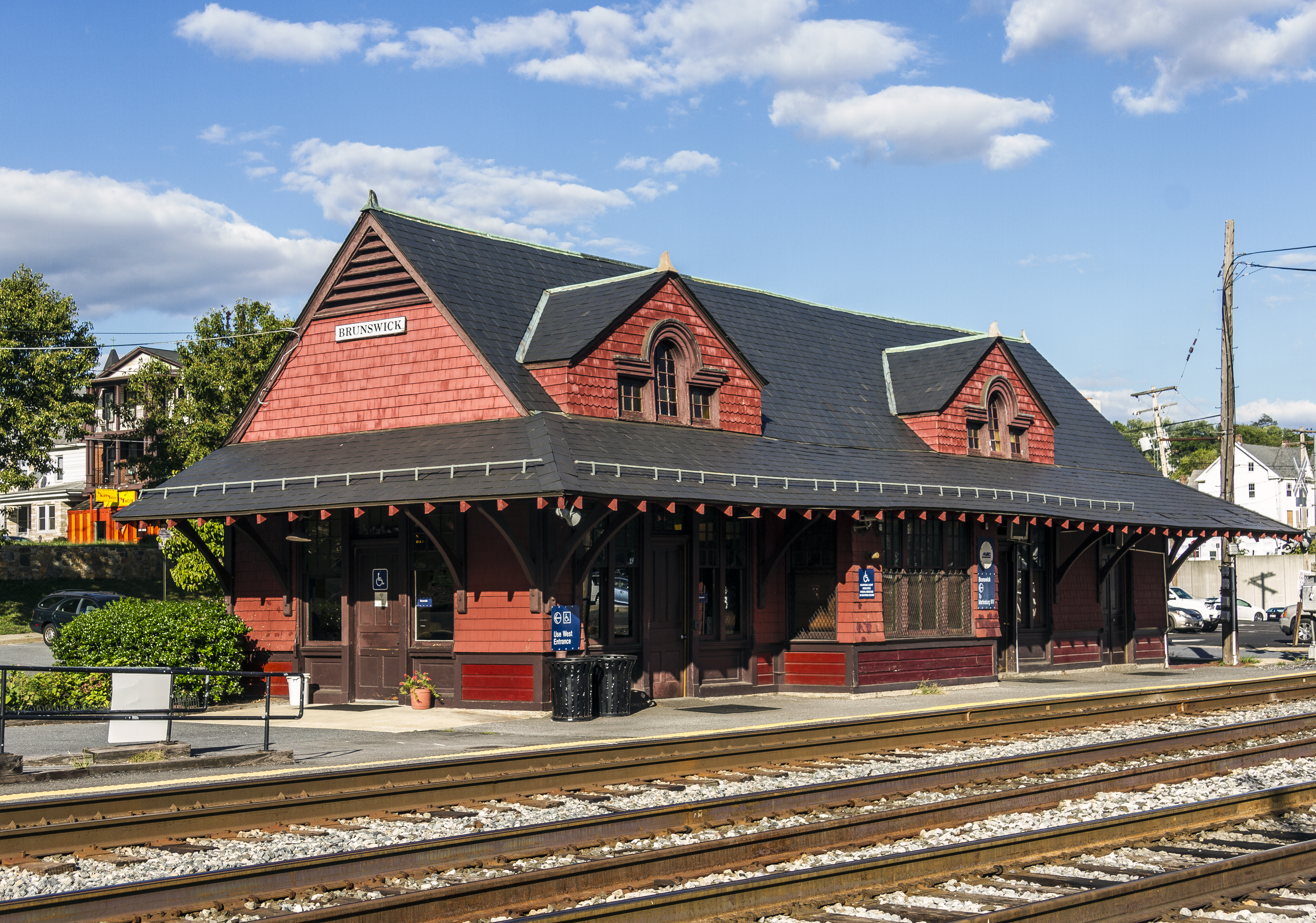 The Brunswick Train station in the Brunswick Historic District, Brunswick, Maryland, USA